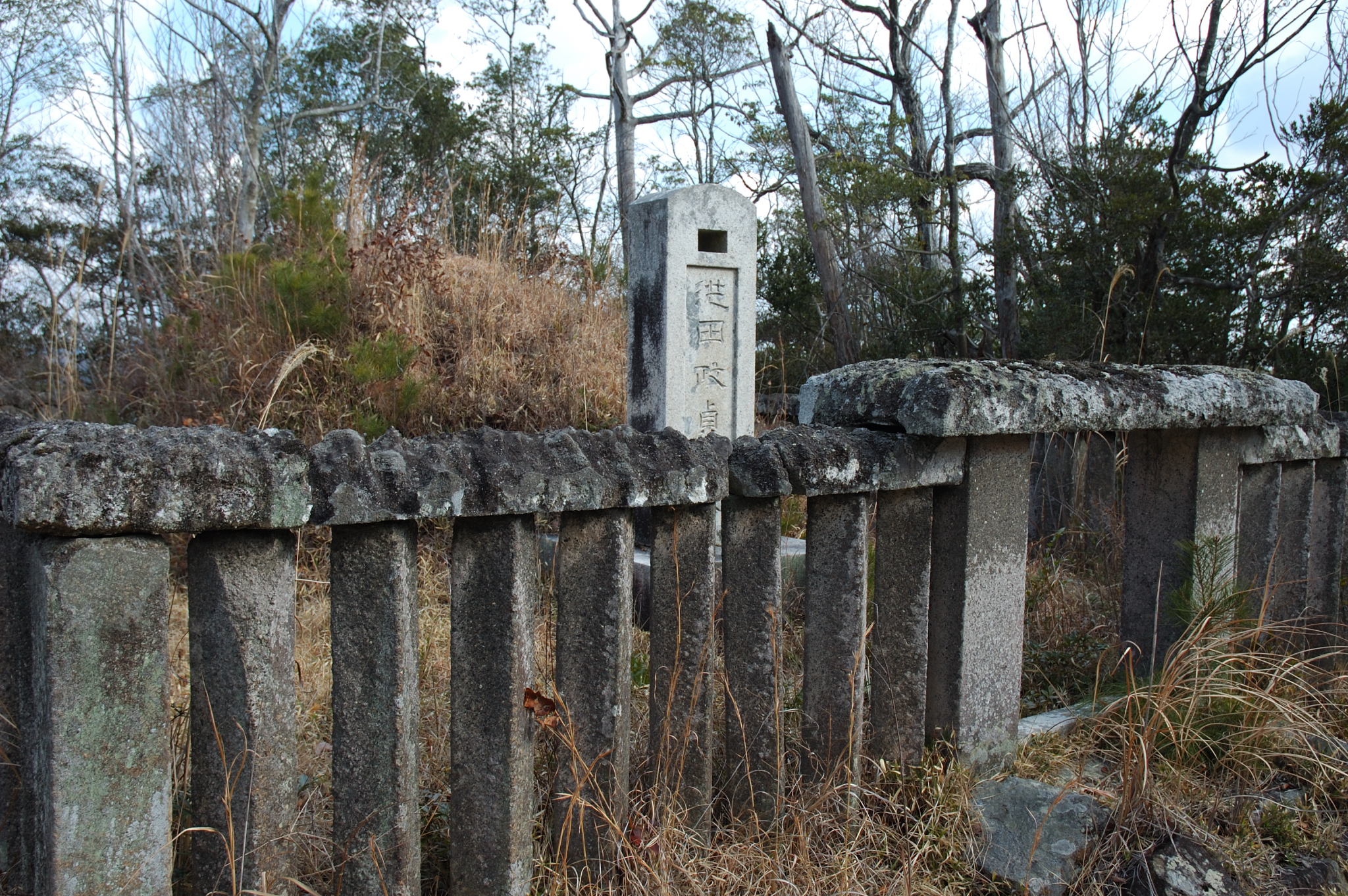 grave of Ikeda Masasada in Nana-no-oyama